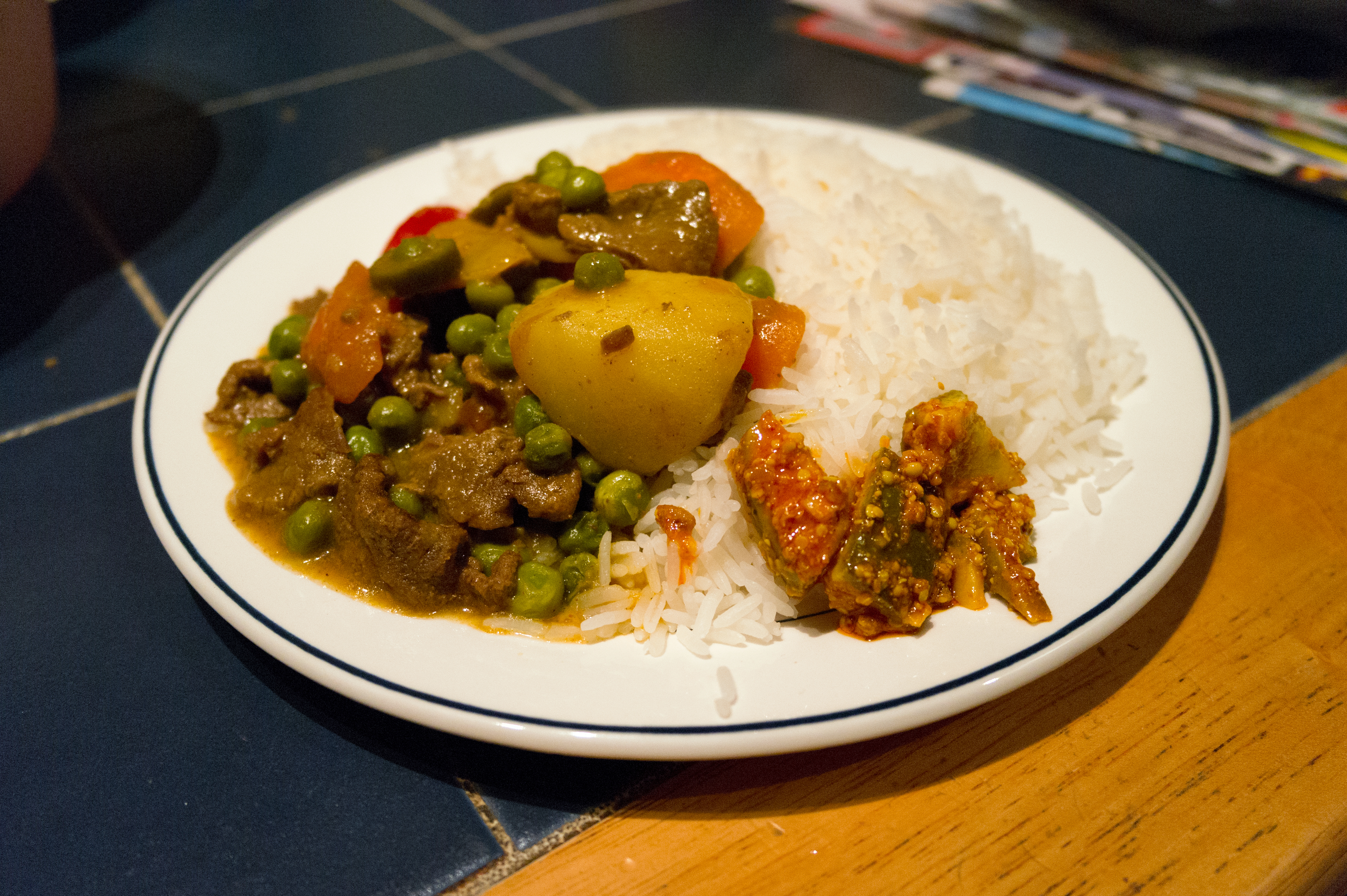 Traditional Filipino stew (Kaldereta; this one's made with beef, olives, potatoes, carrots, bell peppers, chilli and peas. Rice and an Indian vegetable pickle on the side.